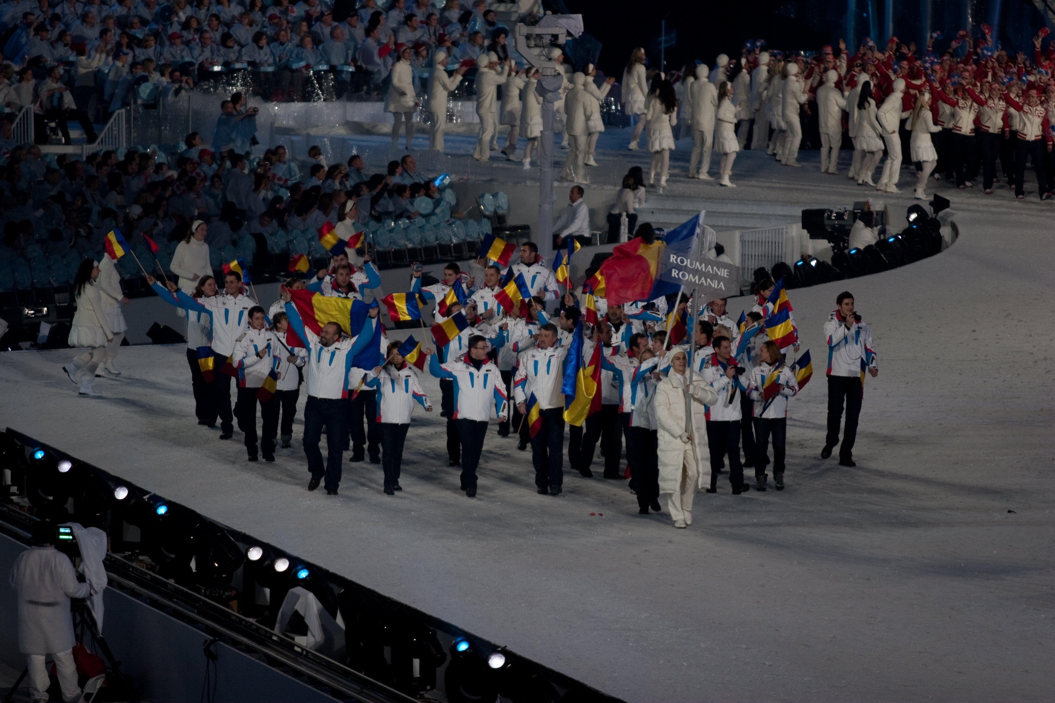 The athletes from Romania entering the stadium at the opening ceremonies of the 2010 Winter Olympics.